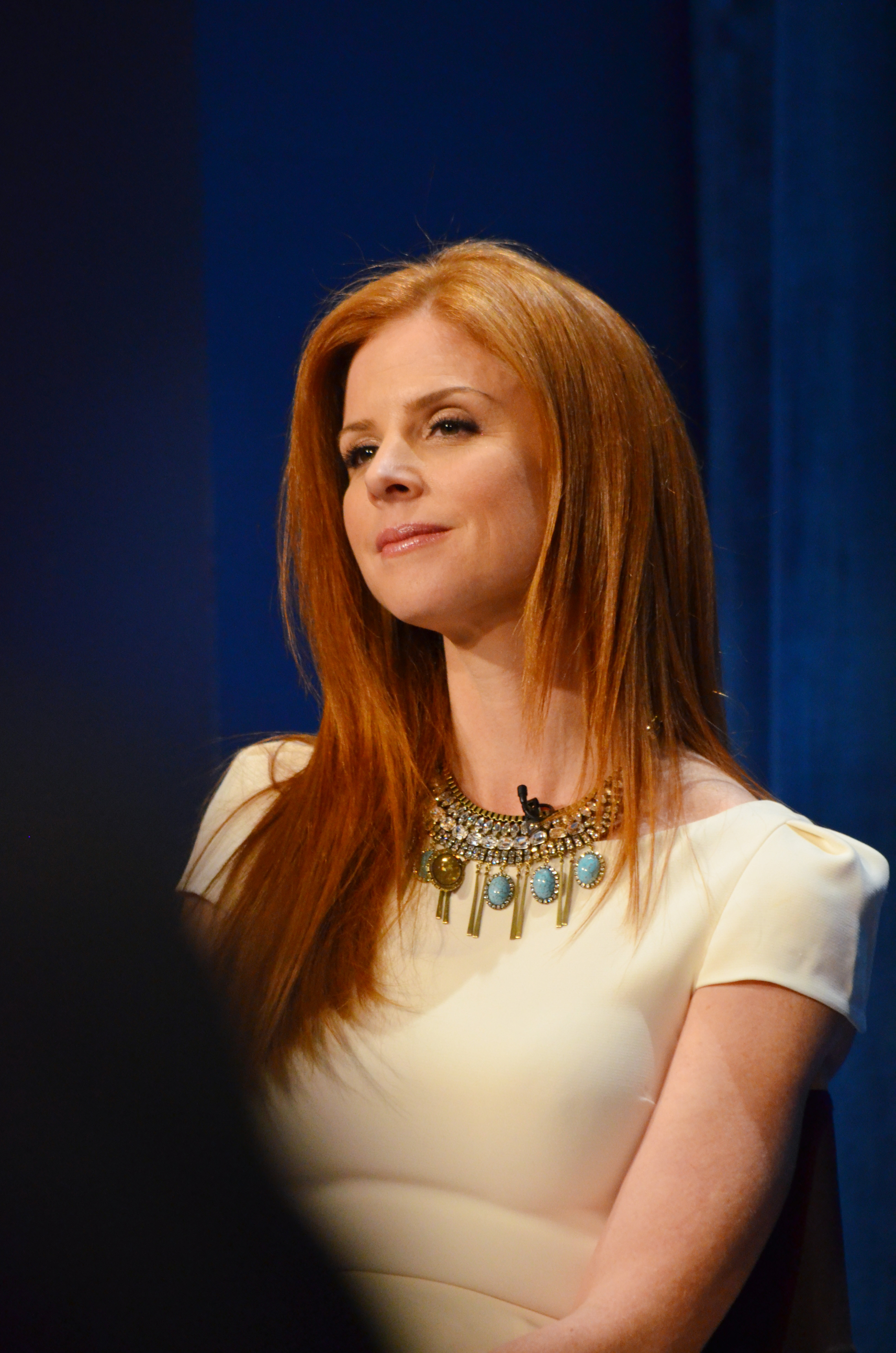 Sarah Rafferty at a promotional event for the TV show Suits